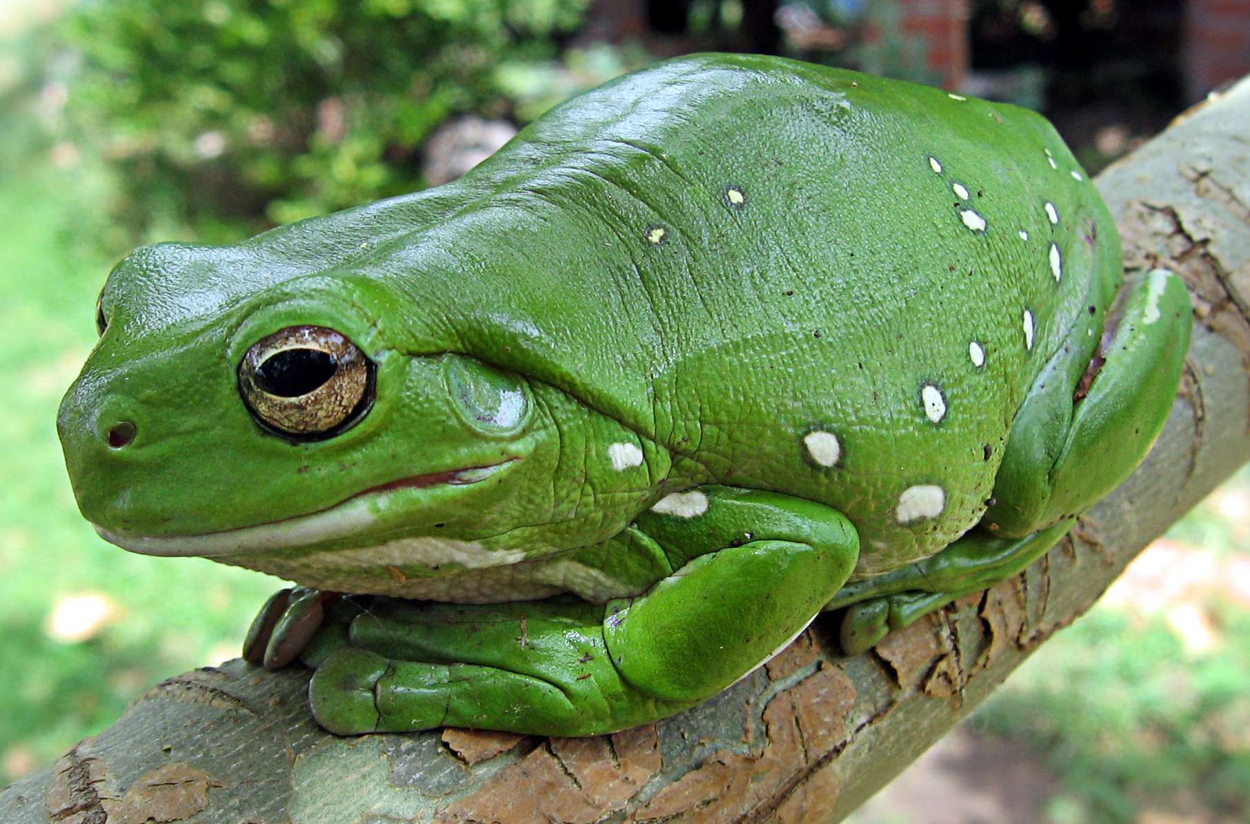 Magnificent tree frog (Litoria splendida)